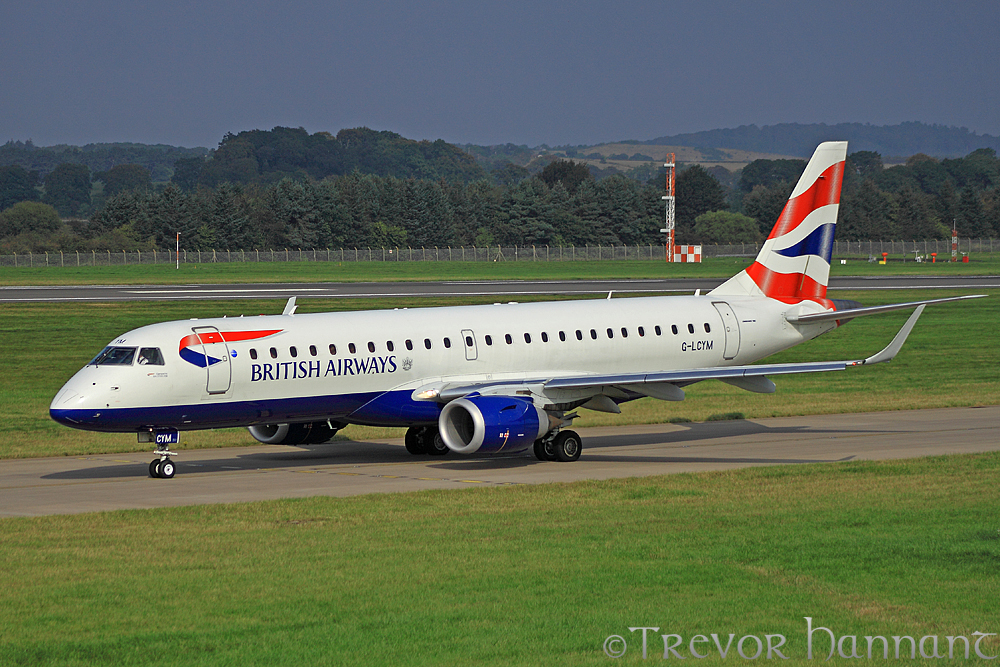 BA CityFlyer Embraer ERJ-190SRG-LCYM